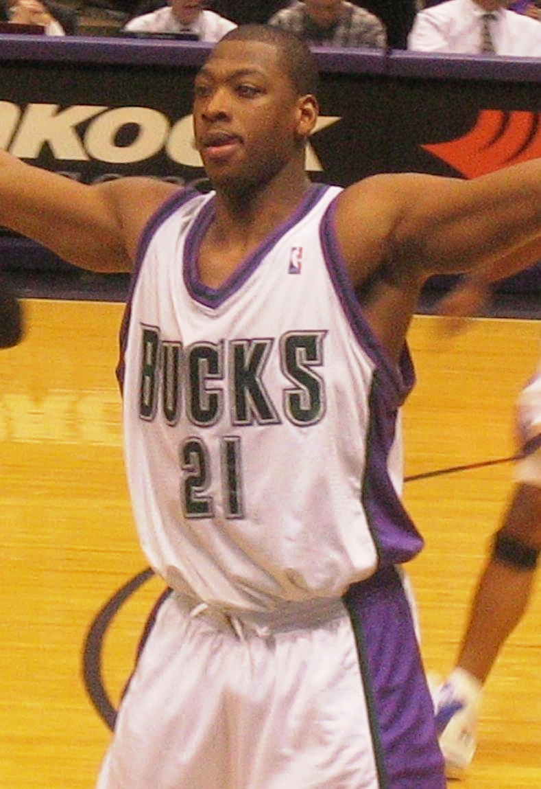 Bobby Simmons setting up for an opponent's inbound play.